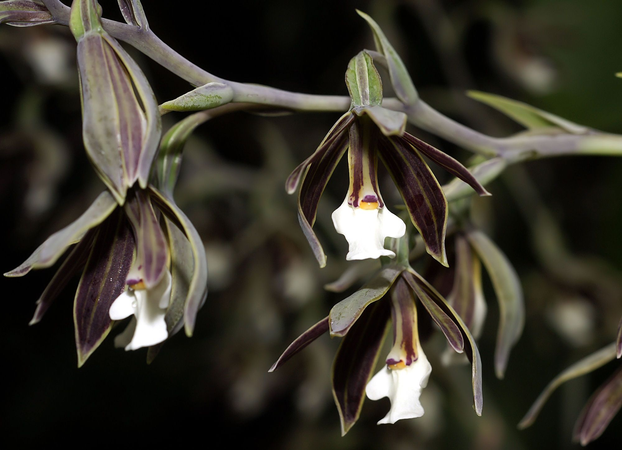 Prosthechea campylostalix